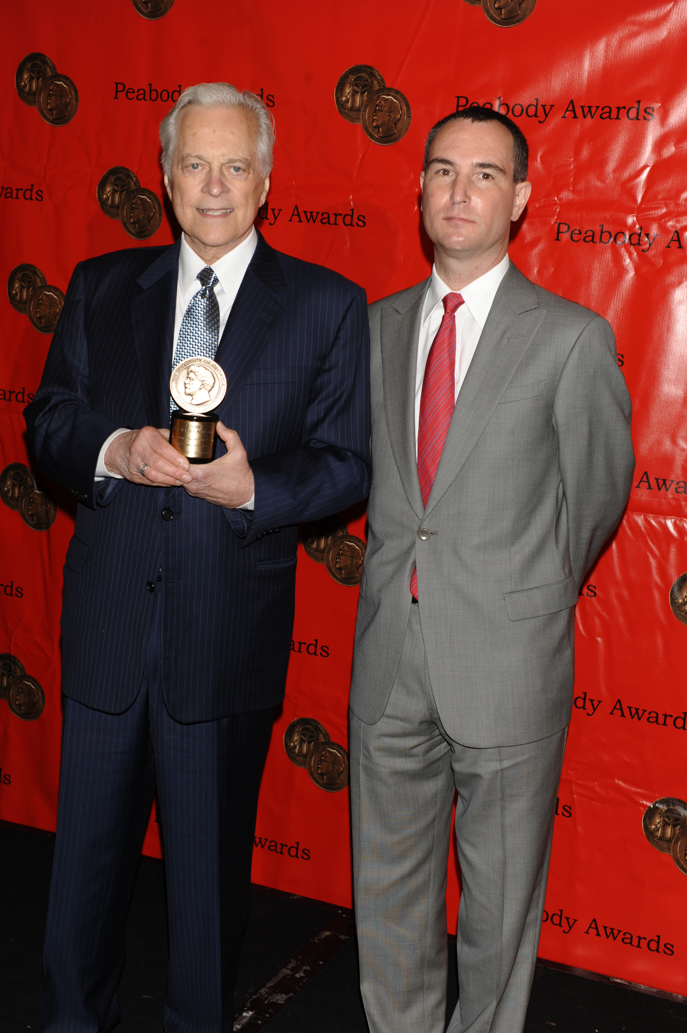 PHOTO CREDIT: ANDERS KRUSBERG / PEABODY AWARDS Robert Osborne and Charles Tabesh 68th Annual Peabody Awards Luncheon Waldorf=Astoria Hotel New York, NY USA May 18, 2009